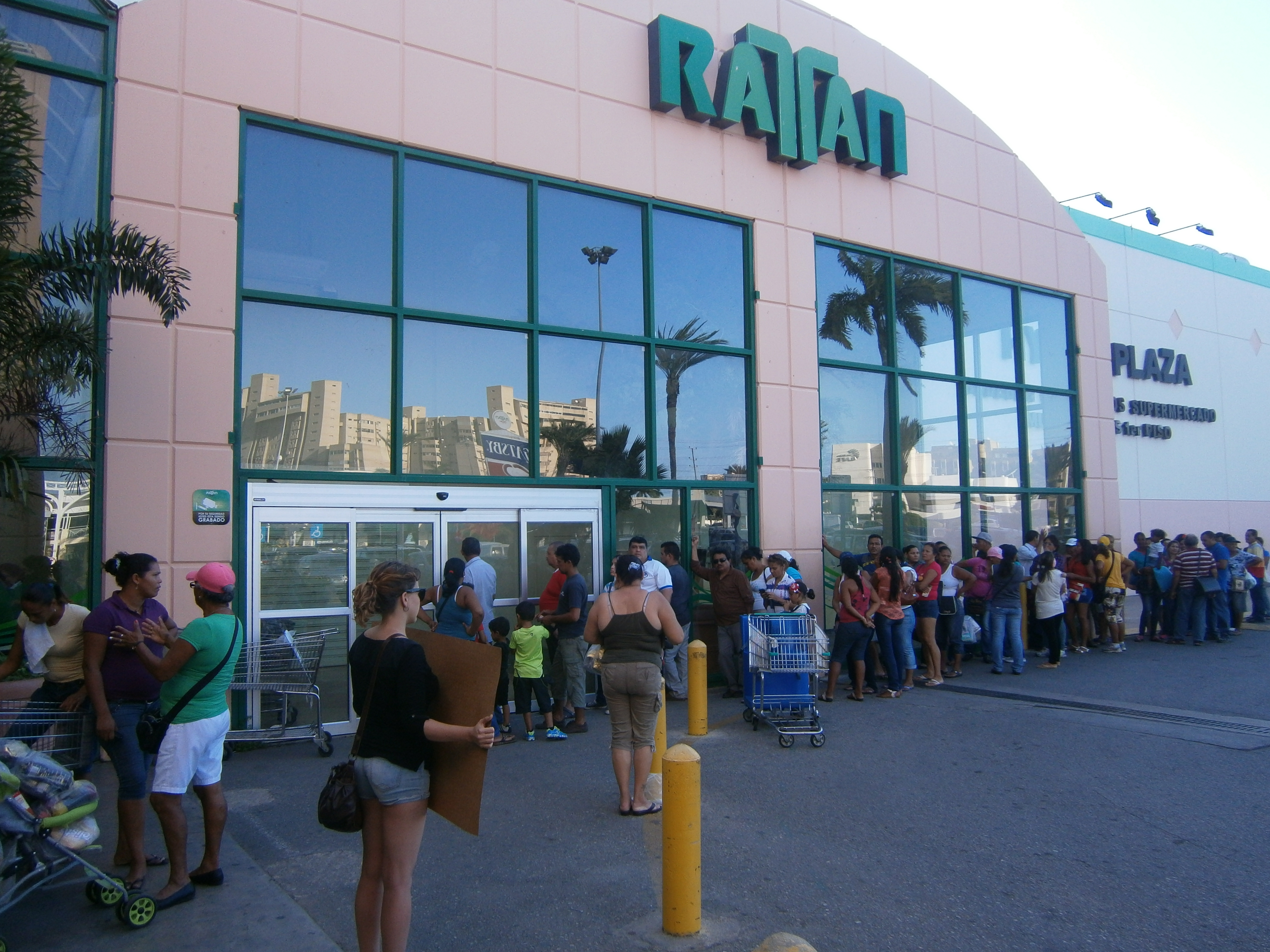 People lines in Venezuela.